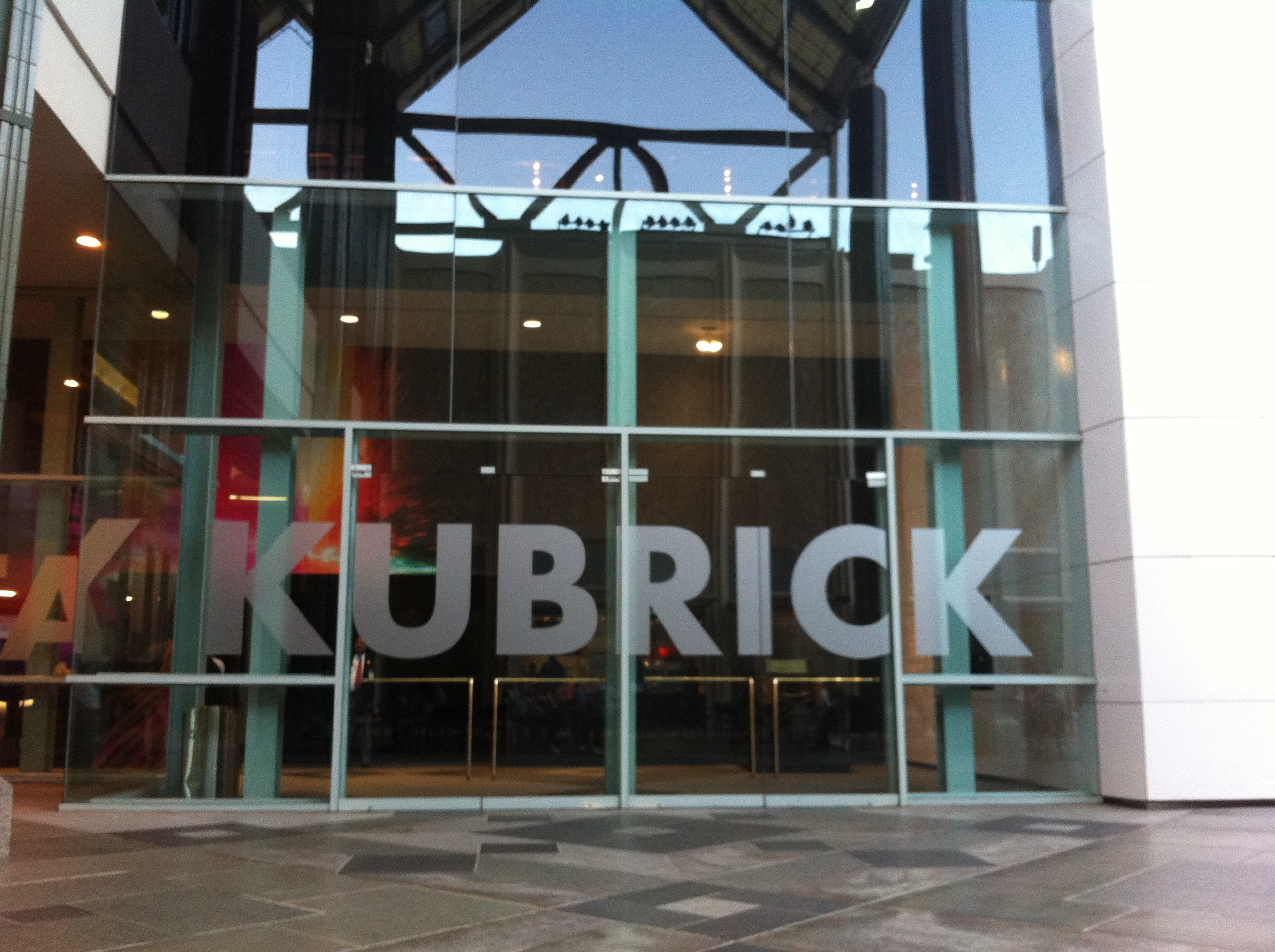 Photo of the Kubrick exhibit at LACMA taken on November 4 2012.